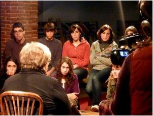 Josefina gravant Amnèsia a Olot